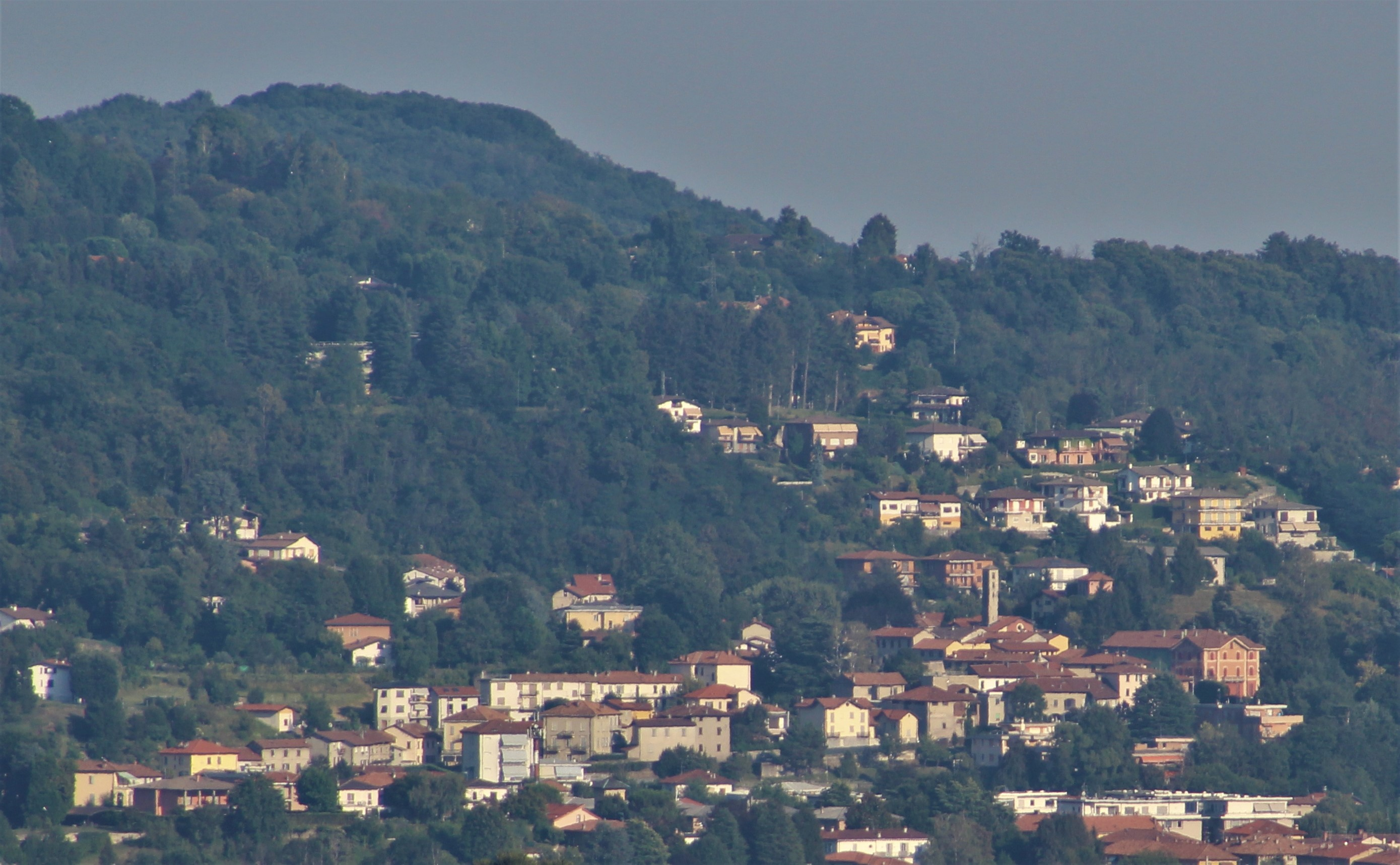 Trecallo (Albate) viewed from Cavallasca